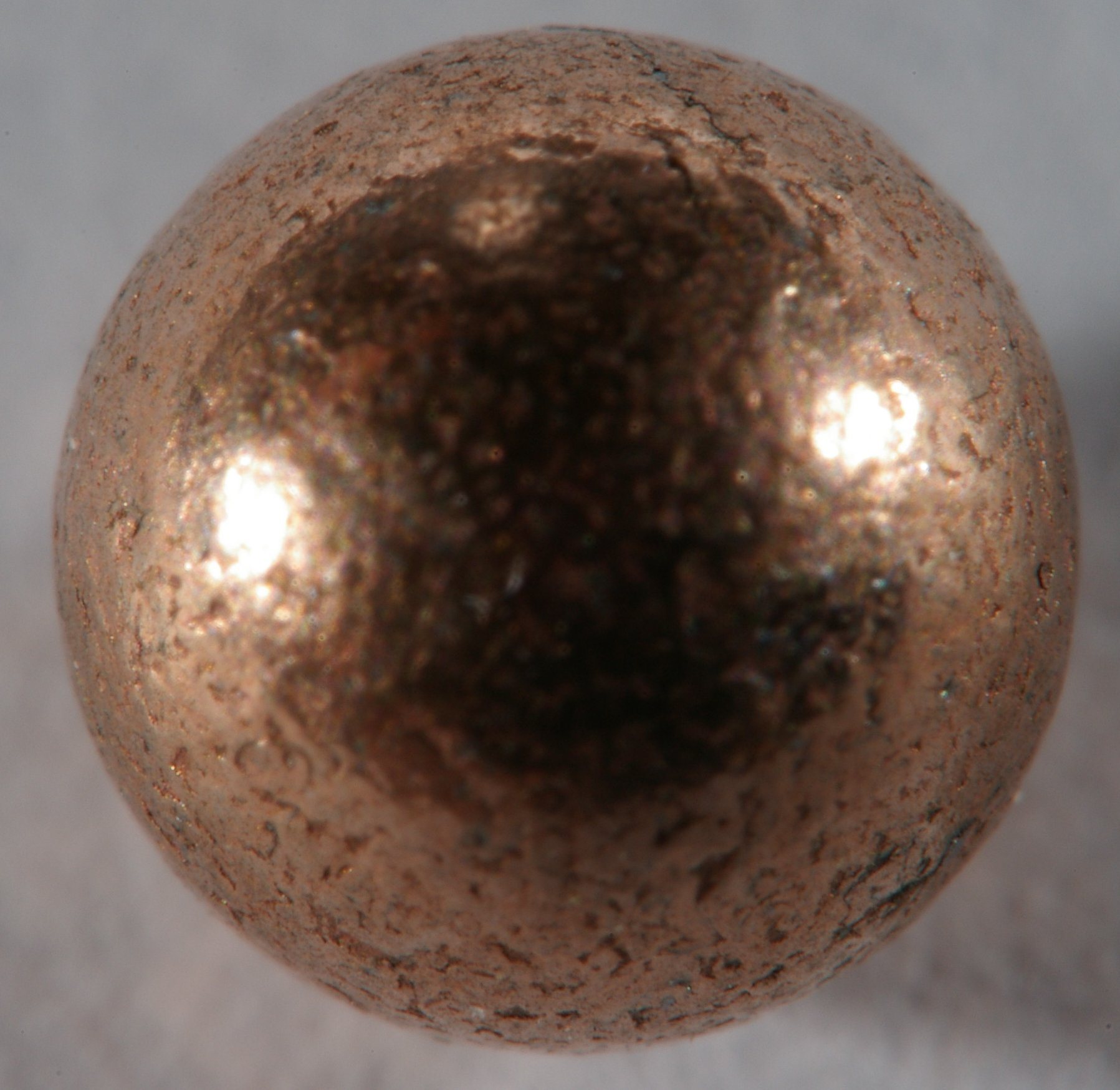 Very close macro of a Copper-plated BB used in Air Guns.